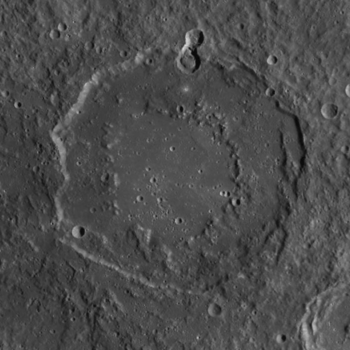 Nabokov crater, on Mercury. MESSENGER Wide Angle Camera mosaic. Image is approximately 222 km wide.